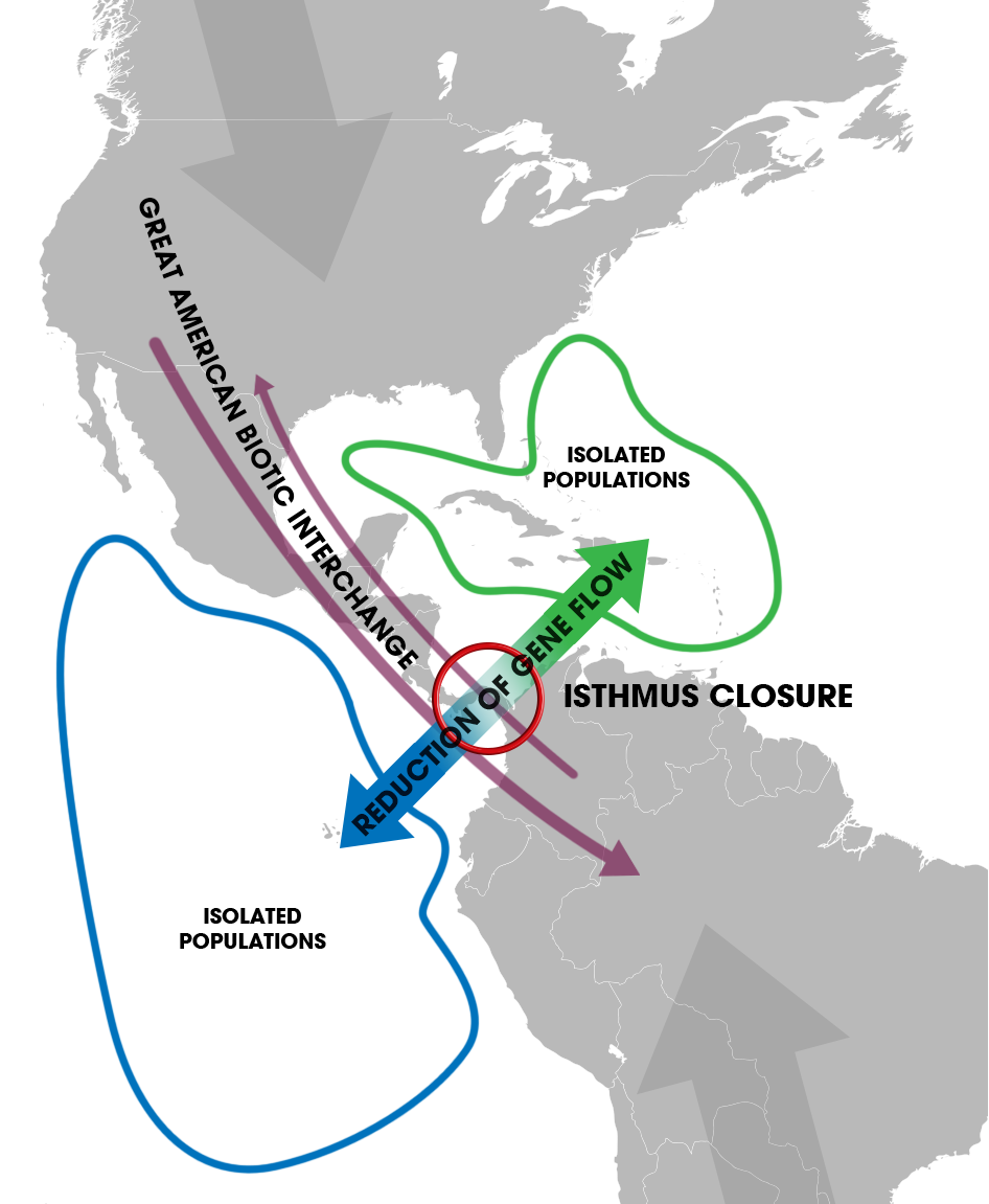 Speciation of marine species isolated on each side of the Isthmus of Panama (blue and green) after its final closure 3 mya. Purple lines indicate the exchange of terrestrial species that occurred upon formation of a passable land bridge (the Great American Biotic Interchange).